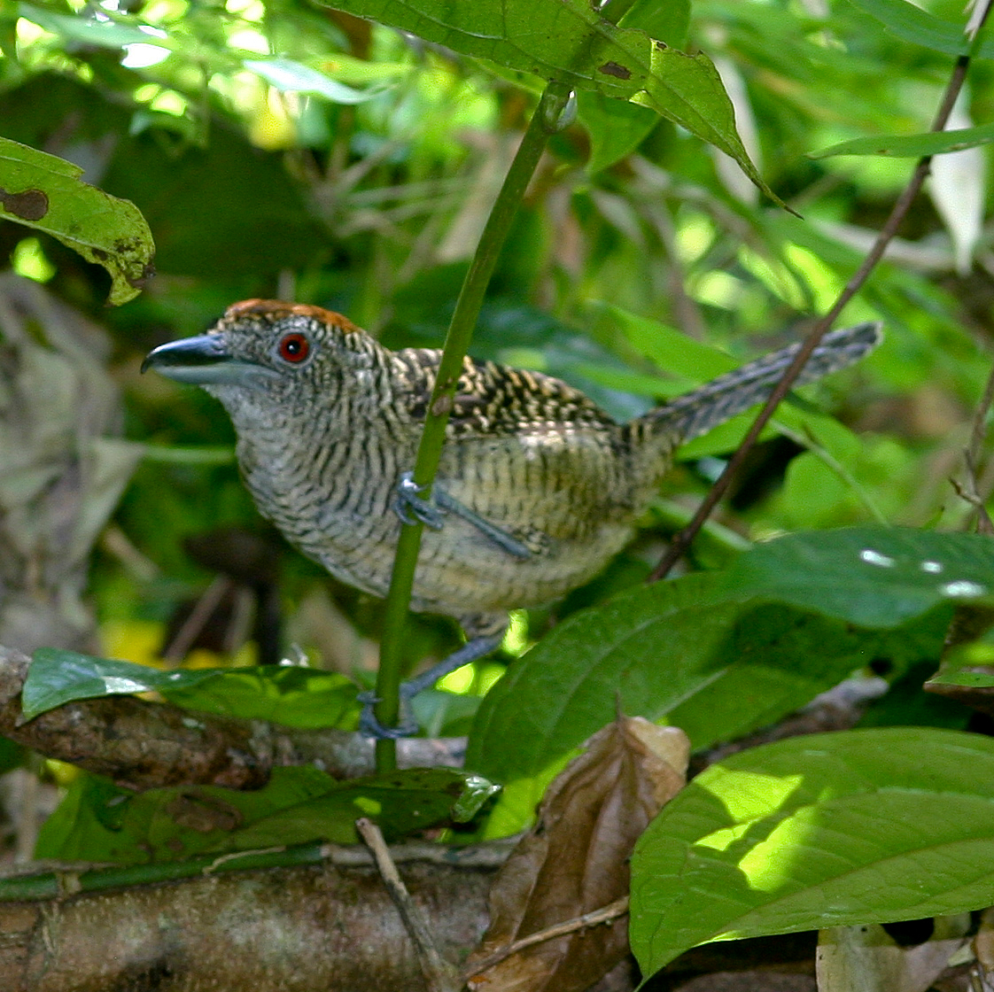 Fasciated Antshrike; a female in Panama.